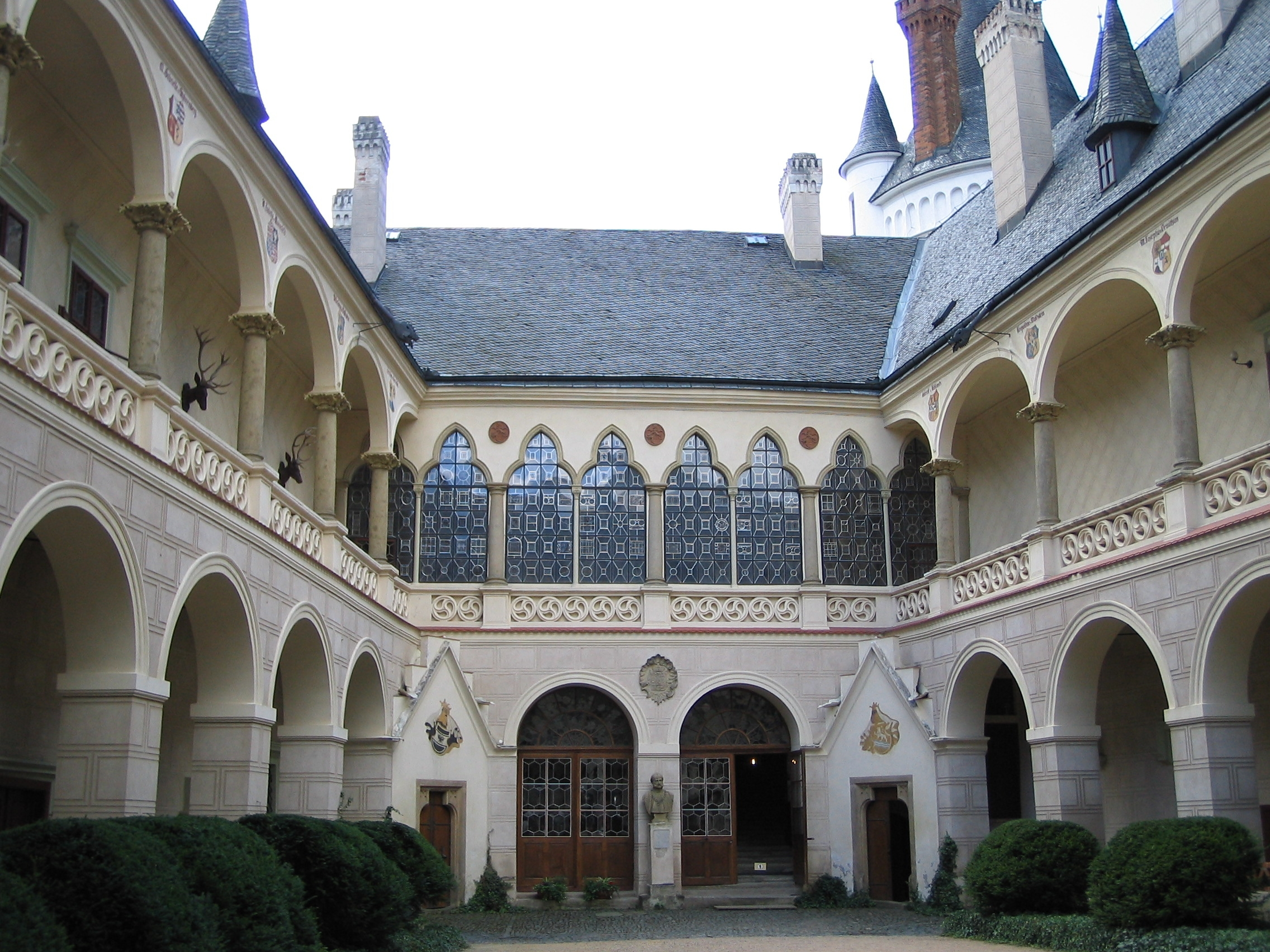 Courtyard of Žleby castle in Kutná Hora district of the Czech Republic